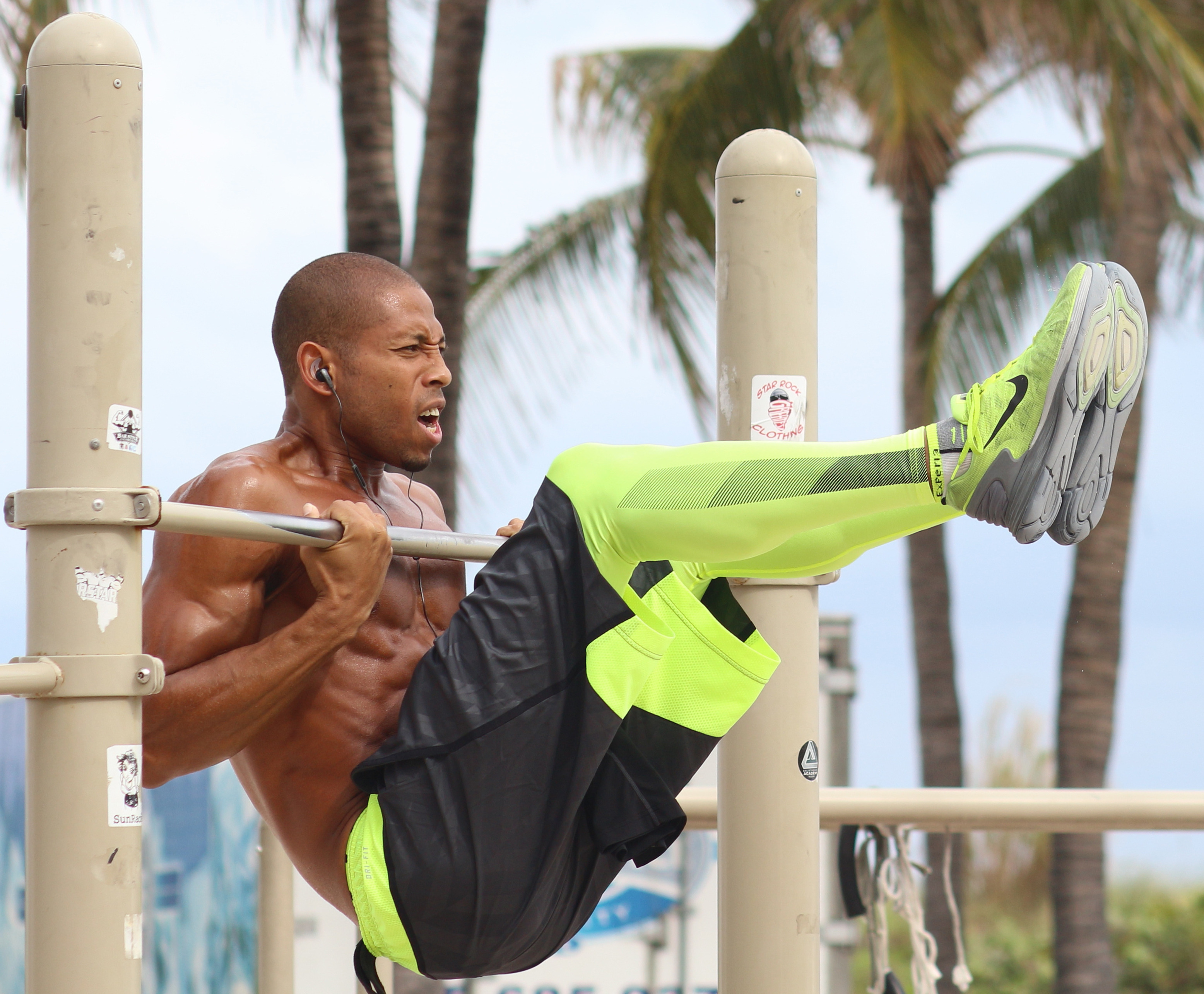 Bodybuilder straining to extended-leg pull-up at Miami South Beach 5th Street outdoor gym - parallel 3D stereo (IMG_2943)